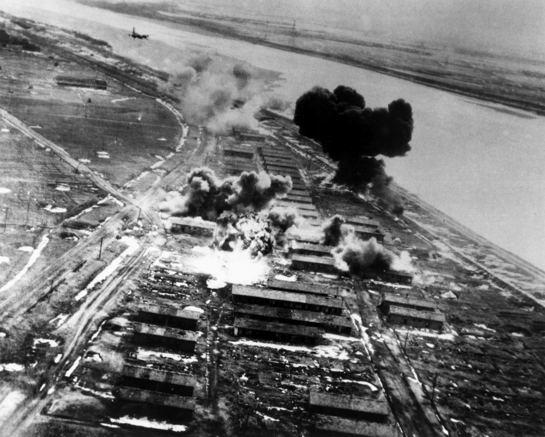 U.S. Air Force Douglas B-26 Invader bombers of the 3rd Bomb Wing (Light) deliver napalm bombs on an enemy storage and barracks area west of Chongsoktu-ri, North Korea, in February 1951. In the upper left corner is a B-26 starting its bomb run.